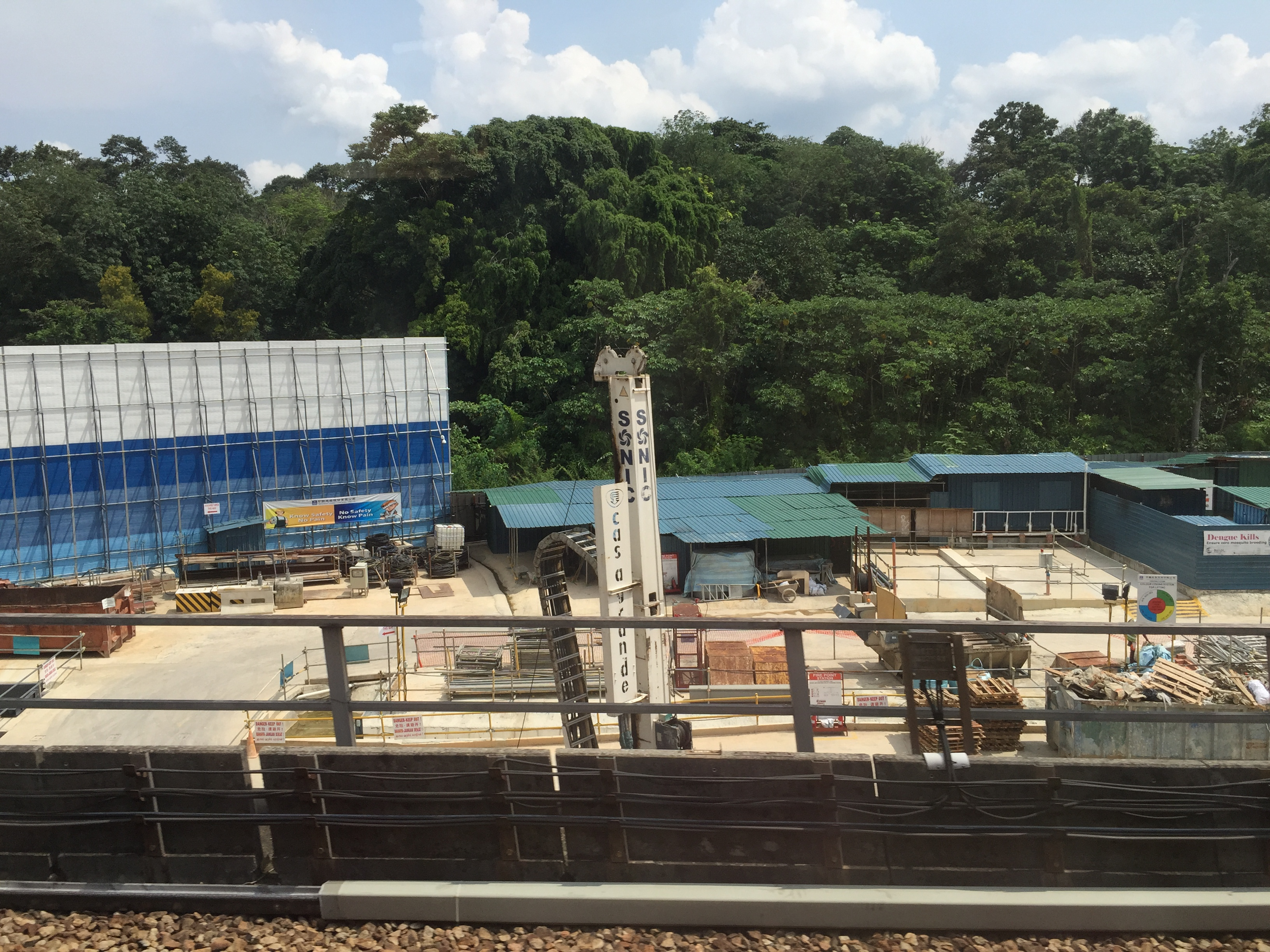 Canberra MRT Station - Station in Construction as of July 2016 on the North South Line.